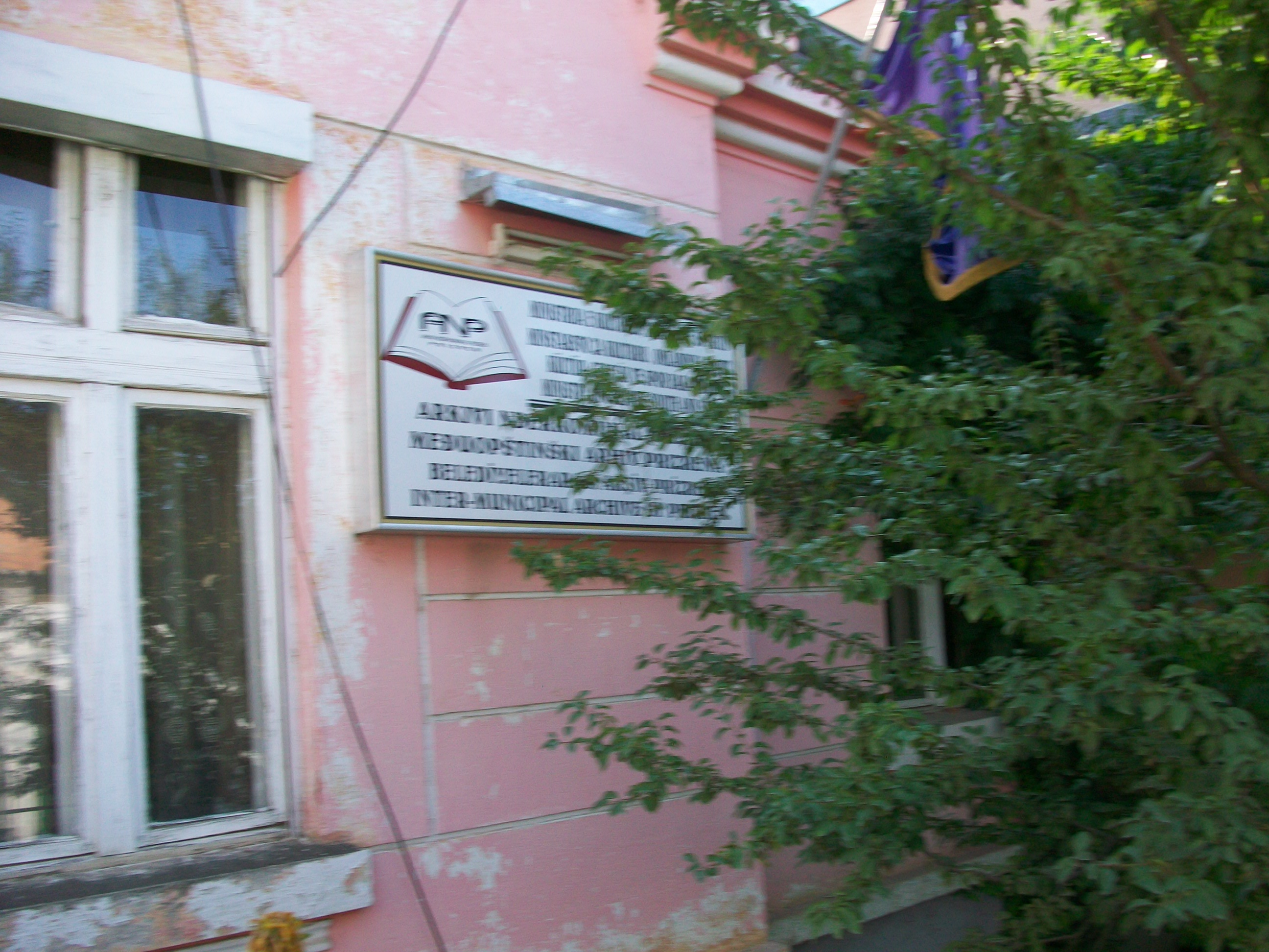 Pictures from Prizren Kosovo